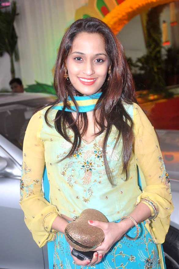 Shweta Pandit at Esha Deol's wedding at ISCKON temple